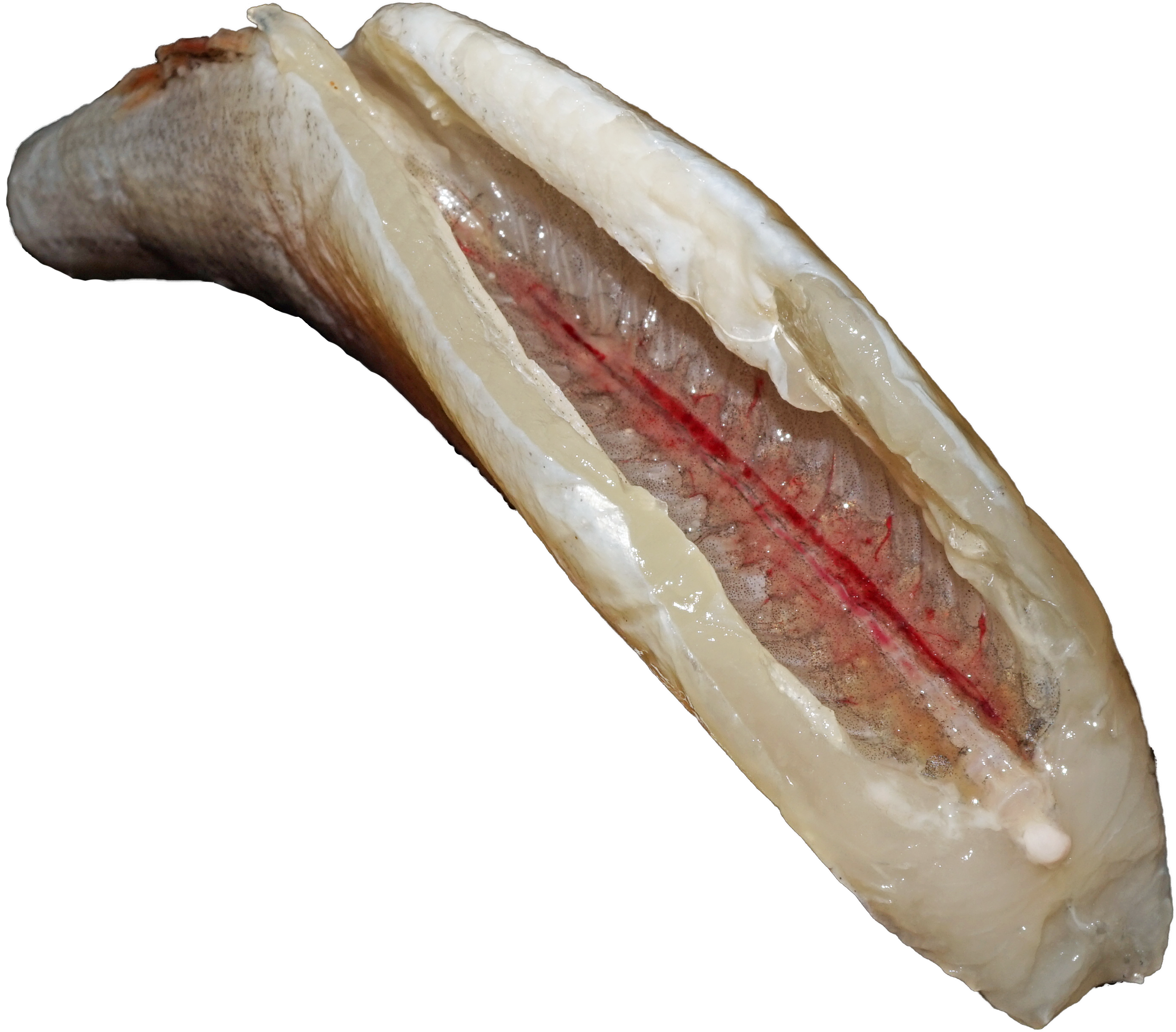 A raw, gutted perch before cooking